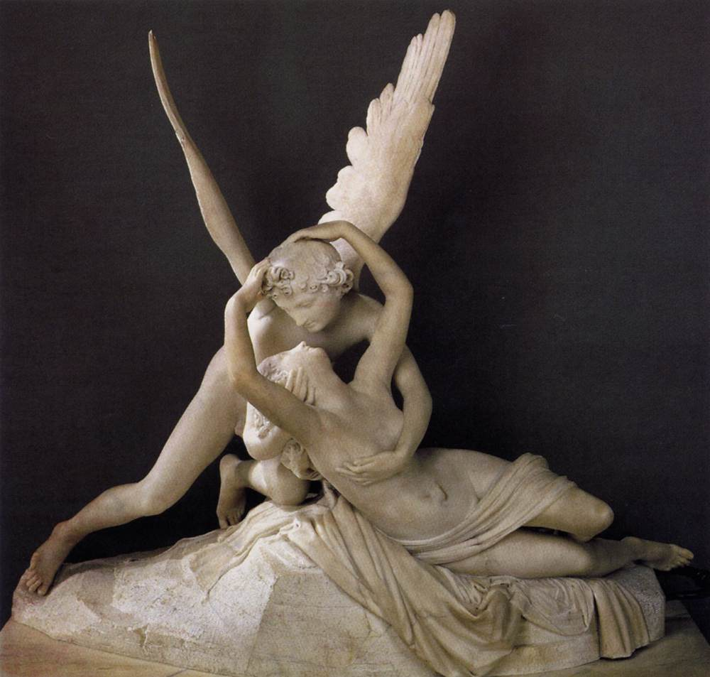 Amore e Psiche, Canova